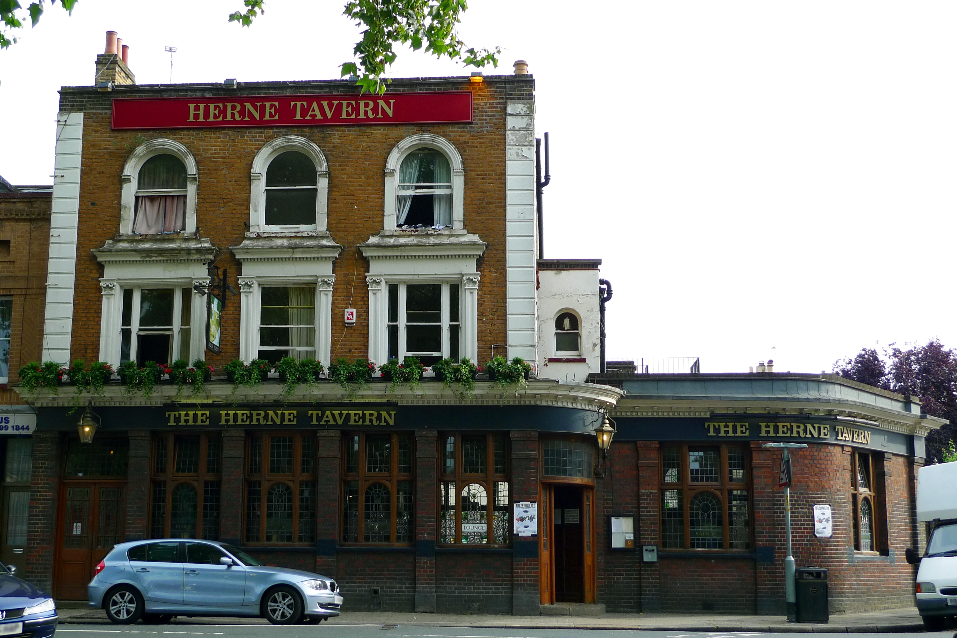 Pricey food, decent ales, lots of room and a vast beer garden. Not a bad place. Address: 2 Forest Hill Road. Owner: (website). Links: Randomness Guide to London Fancyapint Pubs Galore Beer in the Evening Qype